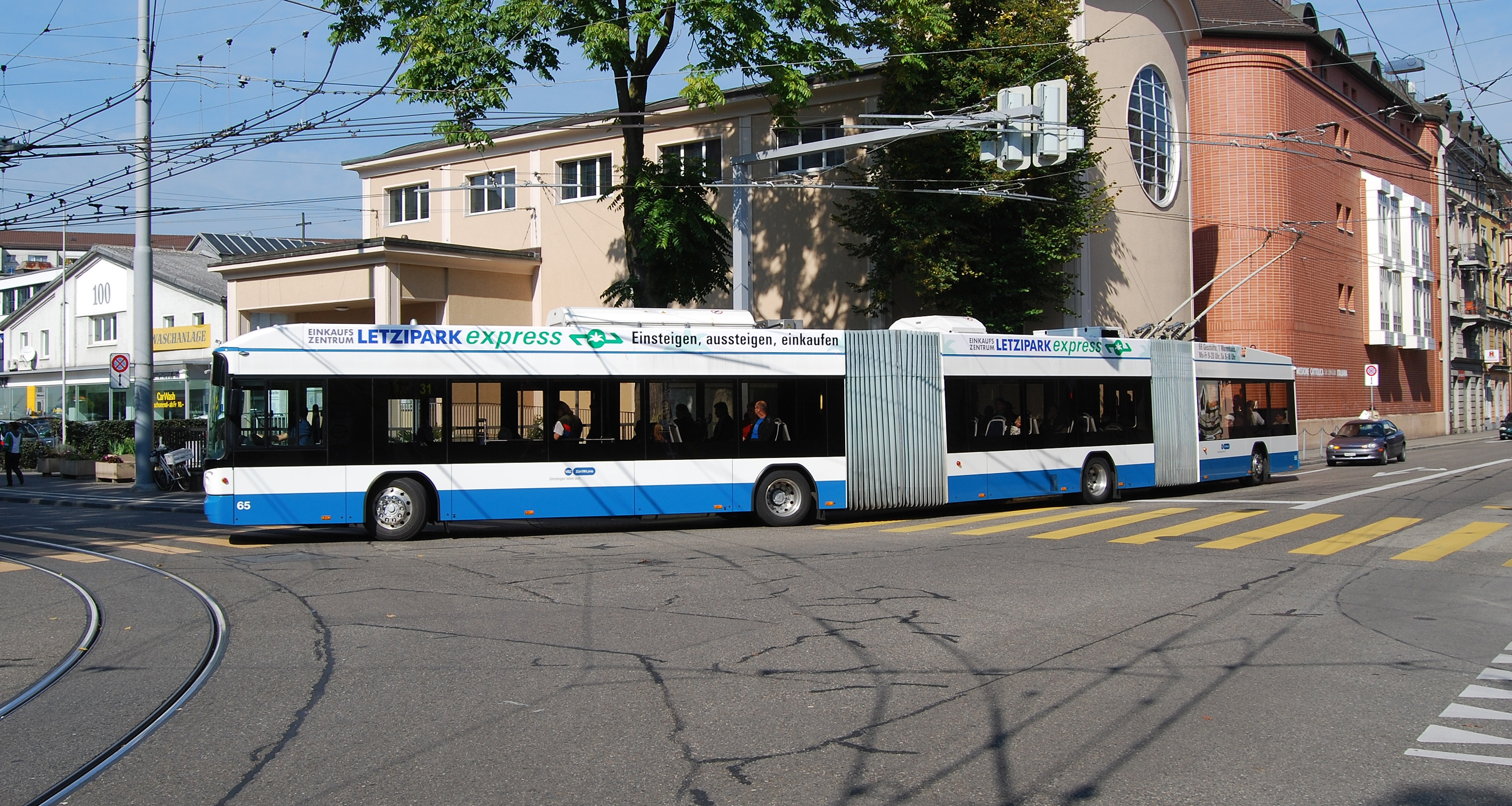 LighTram3 of Carrosserie Hess AG / Line 31 in Zürich.